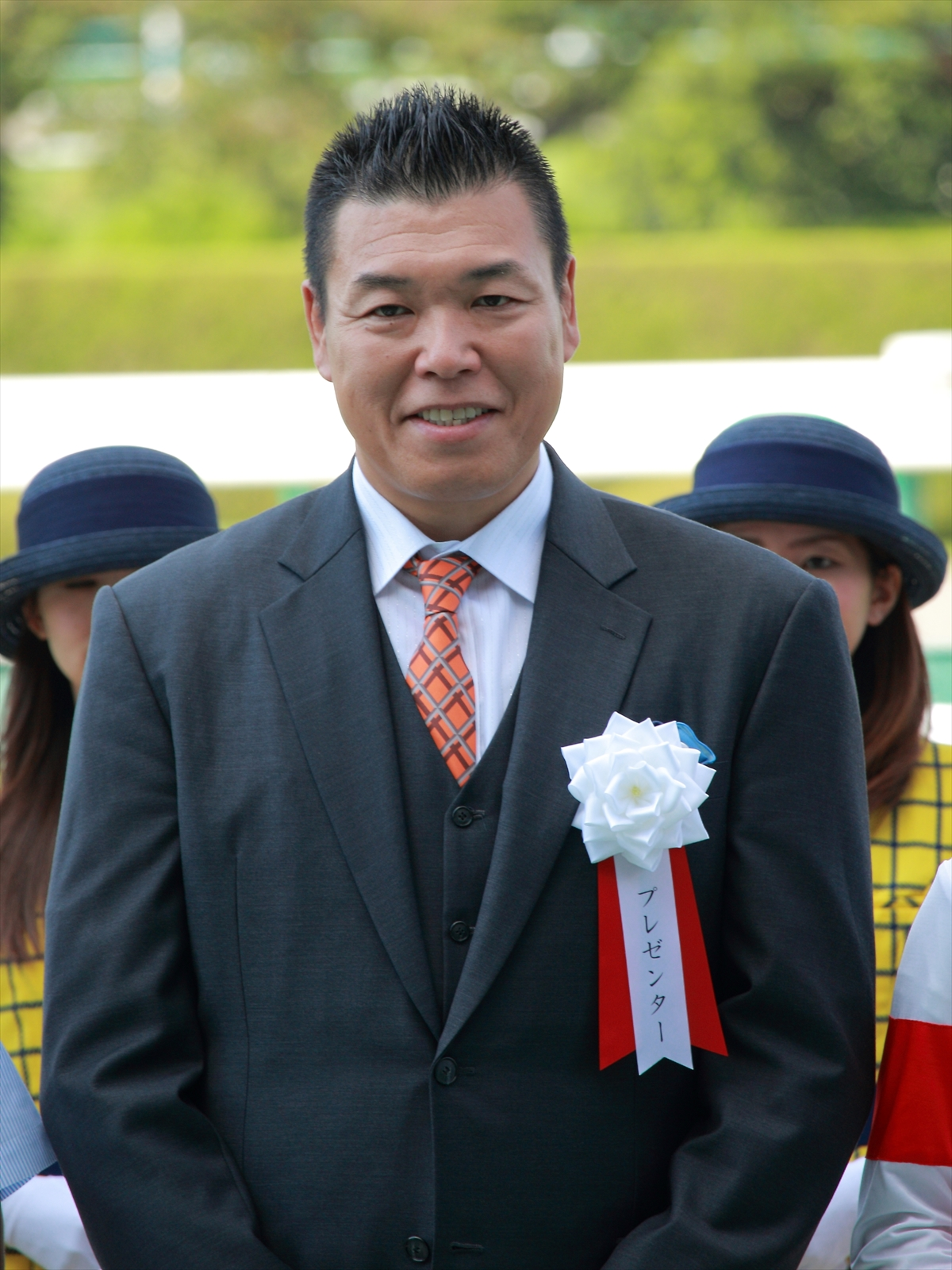 Naoya Ogawa.